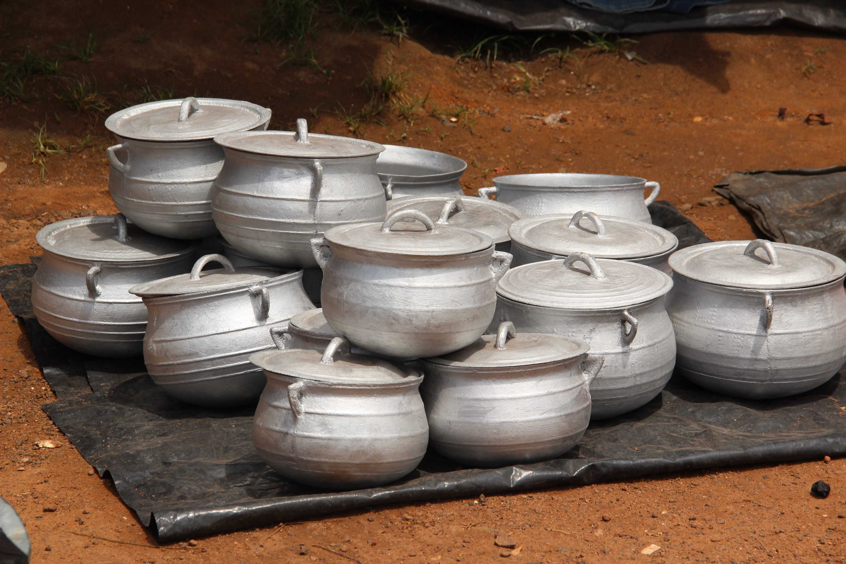 Market in Taï Cote d'Ivoire This is an image of food from Ivory Coast